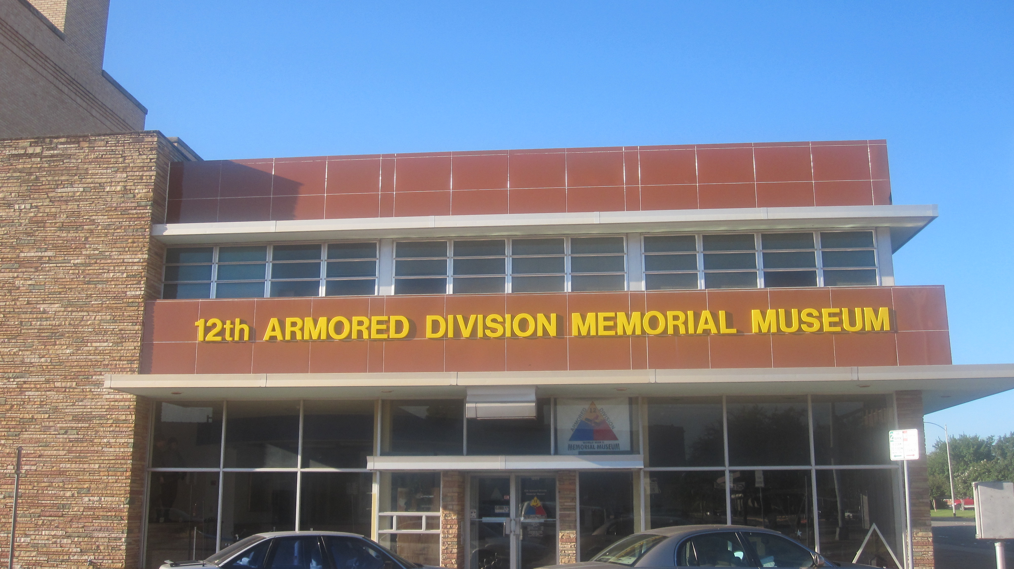 I took photo with Canon camera in Abilene, TX.